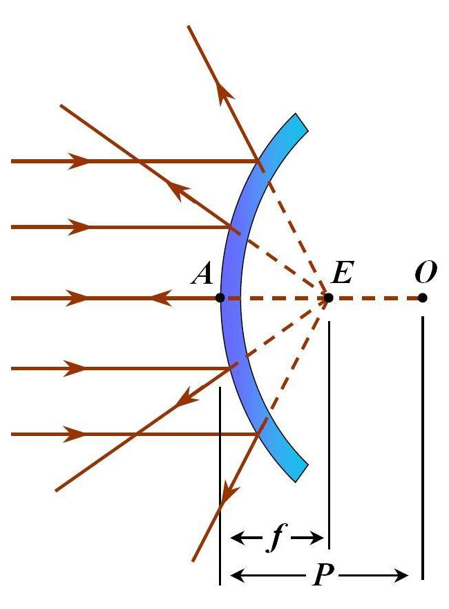 convex mirror